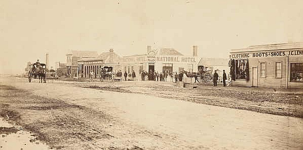 Albert Street, Sebastopol, Victoria, Australia, in 1866